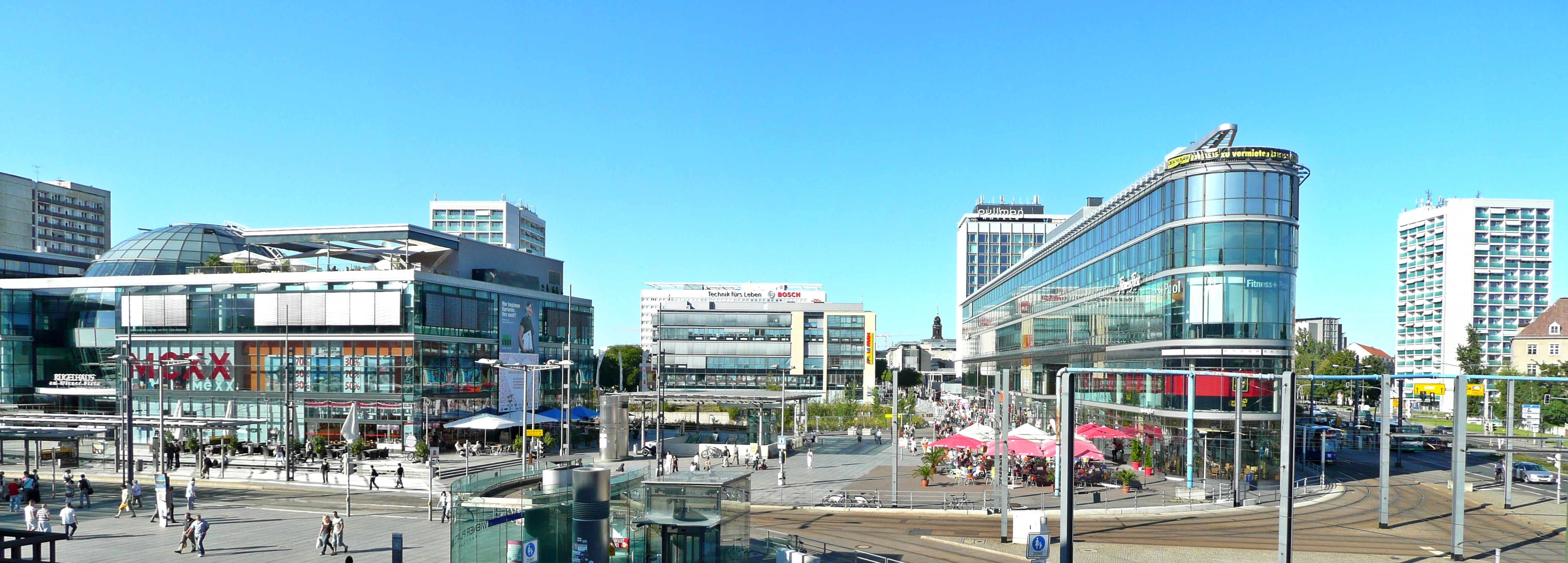 This image shows the southern entrance of the Prager Straße in Dresden in Saxony.